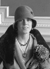 Estelle Manville Bernadotte af Wisborg Ekstrand (1904-1984), a leader in the International Red Cross and Girl Scout movements, Her first husband was Count Folke Bernadotte of Sweden, who was assassinated in Israel in September 1948 while serving as United Nations mediator.